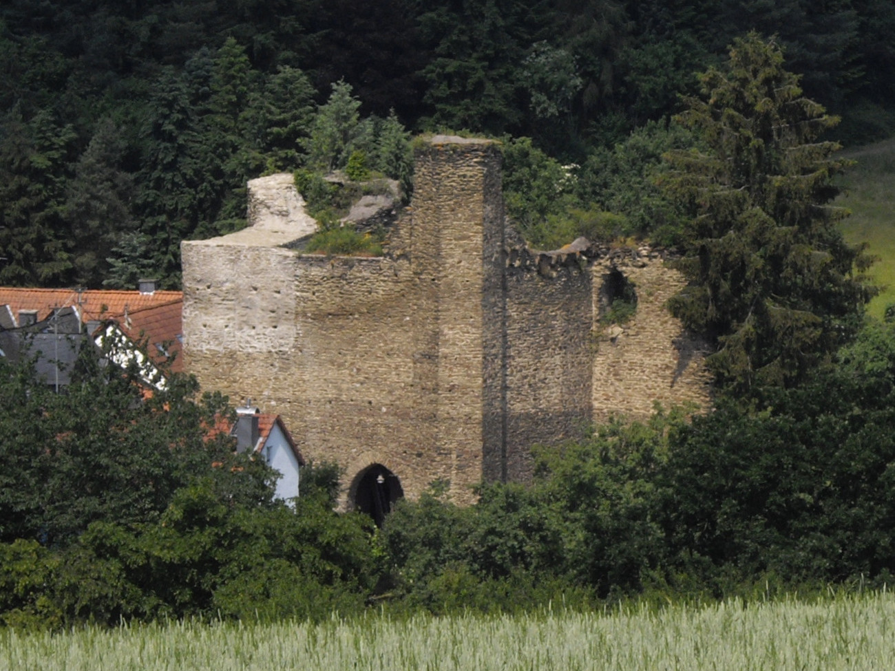 The castle of Wallrabenstein, Taunus, Germany. View from south-eastern direction.